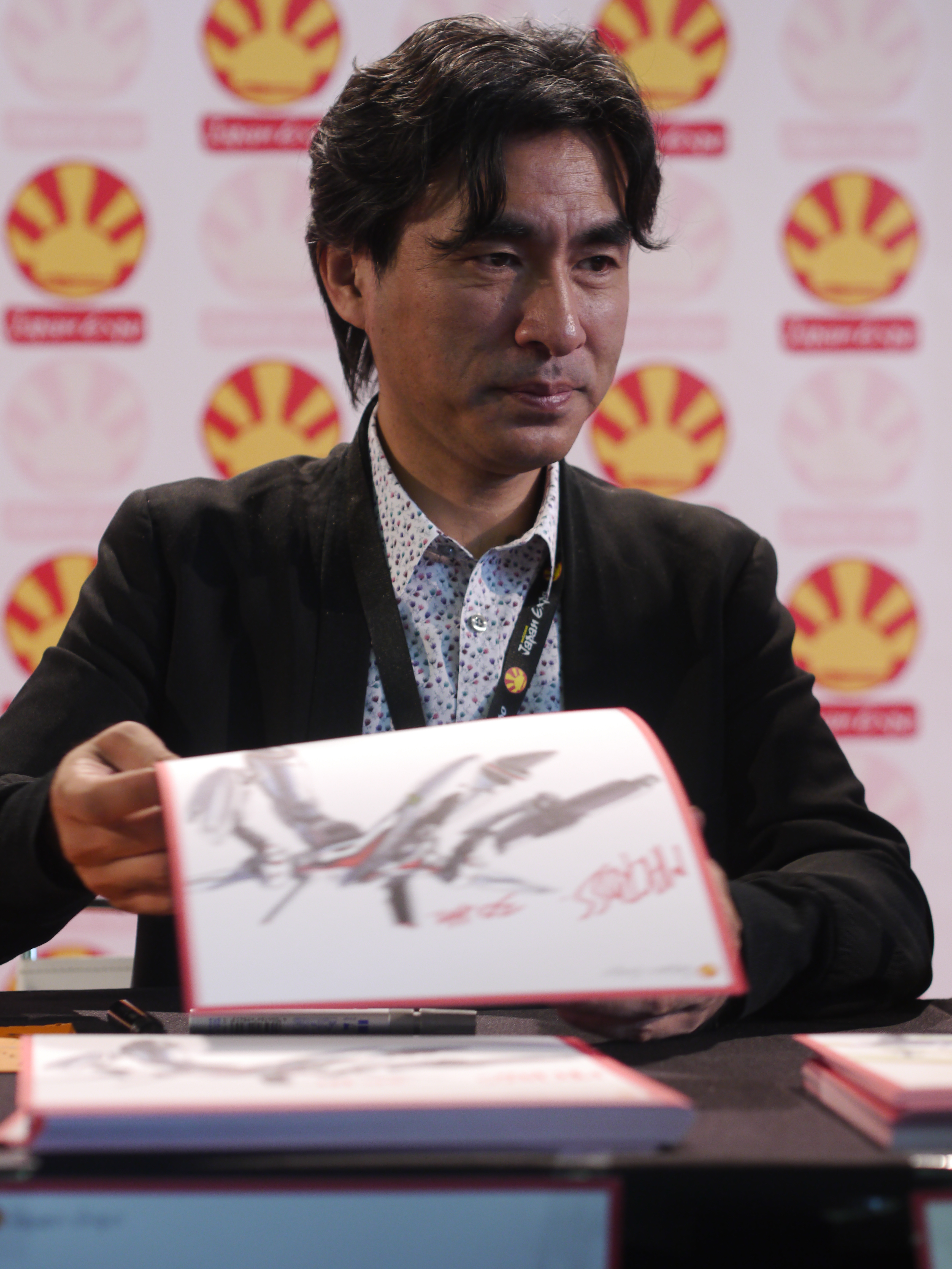 Japan Expo Festival, 14th impact